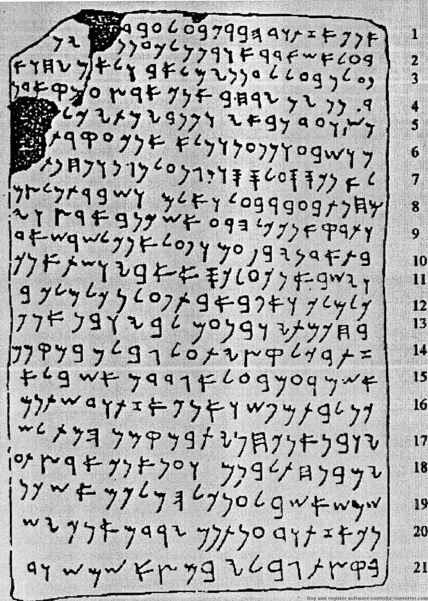 Great inscription near the "Lions Gate".